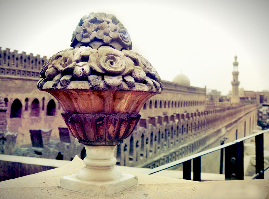 لقطة توضح العمارة الاسلامية لجامع احمد بن طولون من الخارج و بجانبه بيت الكريتلية .. لقطة ماخوذة من اعلى السطح للبيت